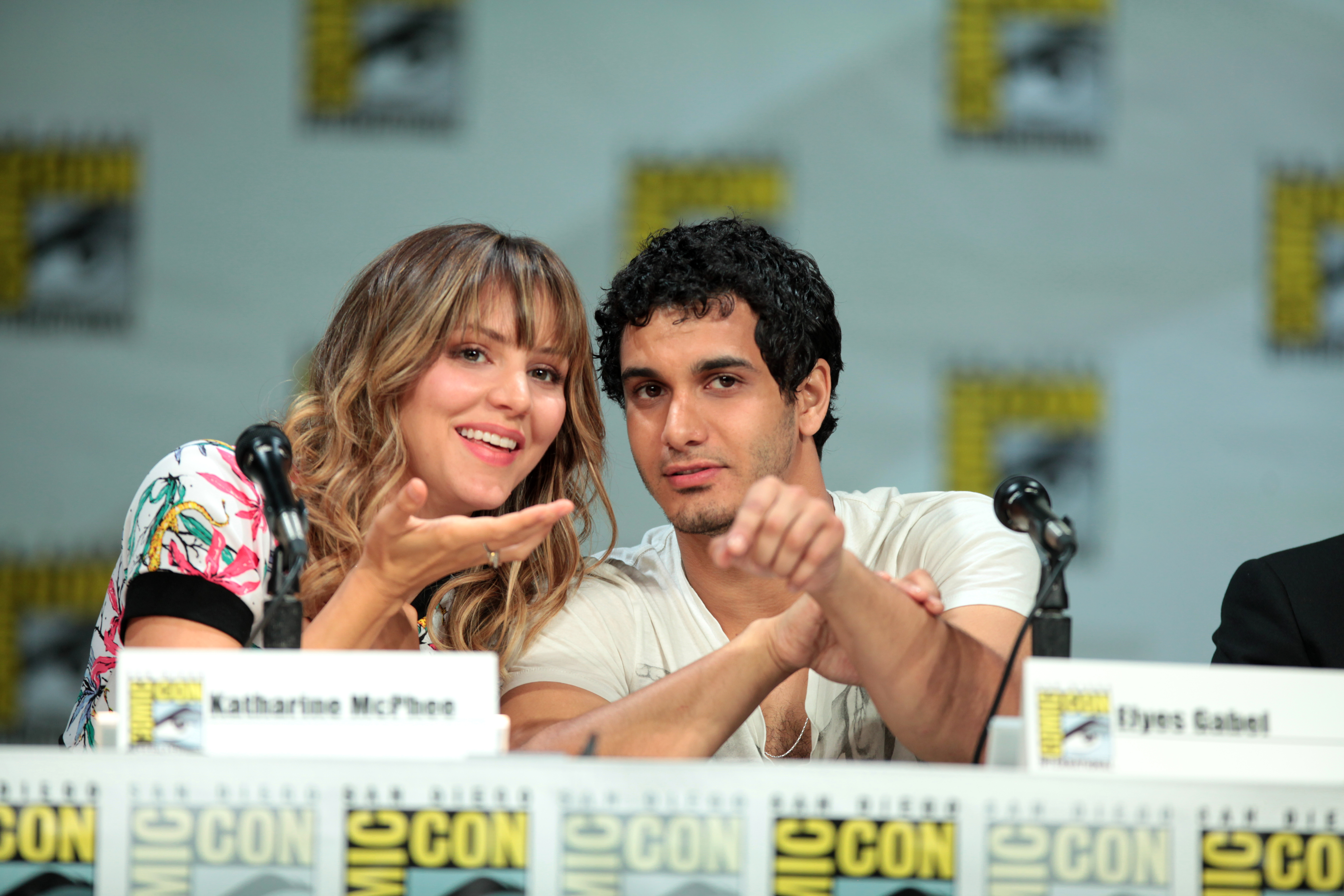 Katharine McPhee and Elyes Gabel speaking at the 2014 San Diego Comic Con International, for "Scorpion", at the San Diego Convention Center in San Diego, California.